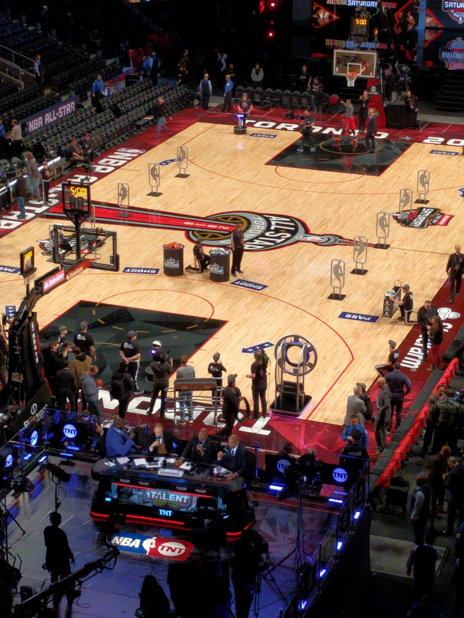 NBA All-Star Game - Saturday Skills Challenge, Three-Point Contest and Slam Dunk Contest. Air Canada Centre, Toronto 2016